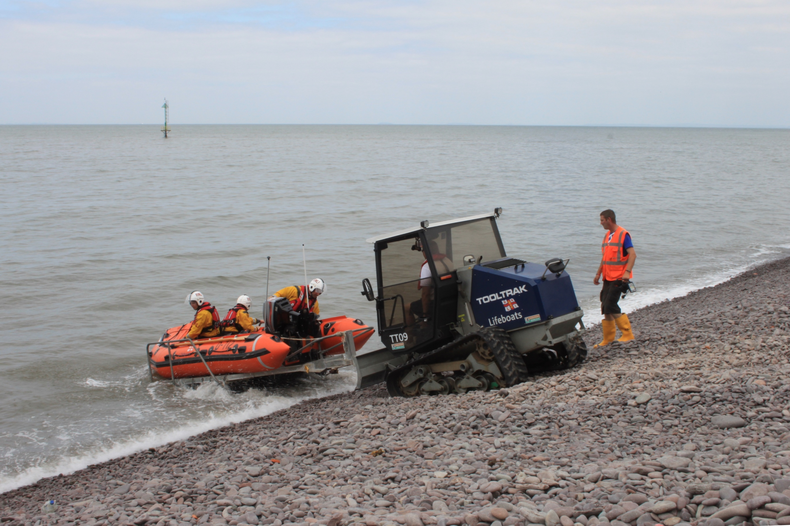 Minehead inshore lifeboat D-712 Christine is pushed into the water by Tooltrack tractor TT09.